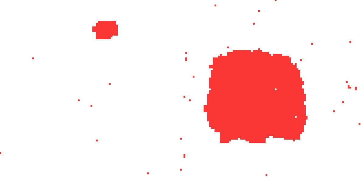 One small nucleus and a already over- critical nucleus.